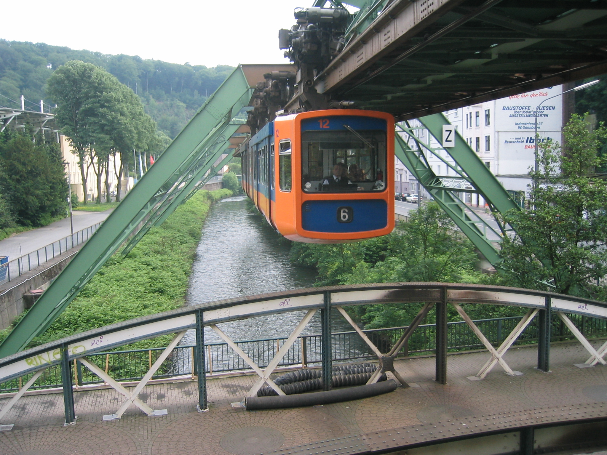 Wupperbrücke Stadion Arrival of metro at the station Schwebebahn Wuppertal 3 juni 2006 Picture taken by Hullie